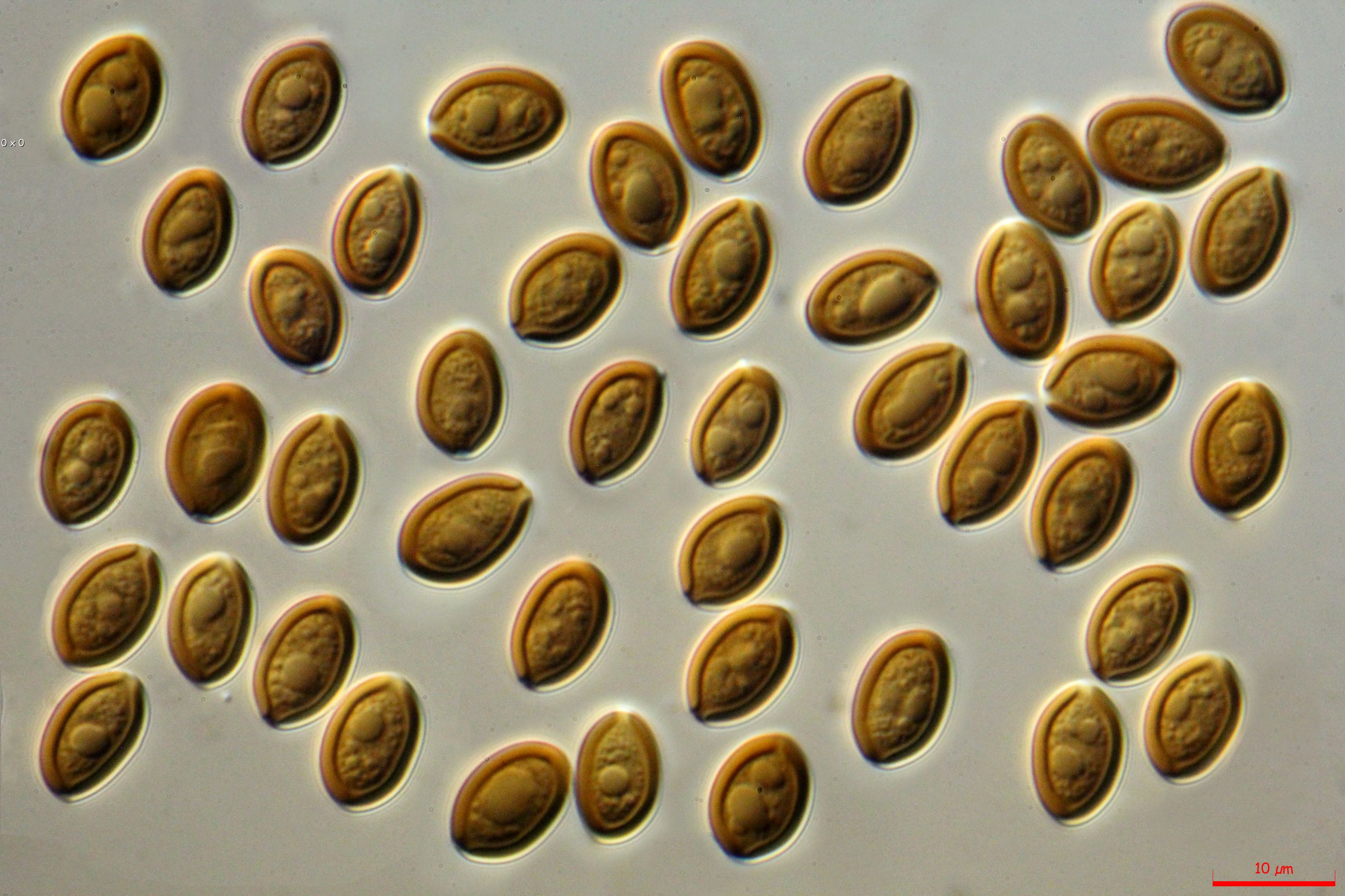 Psilocybe cubensis spores, 1000x magnification. Illuminated with DIC. From a spore print labeled "Panama".